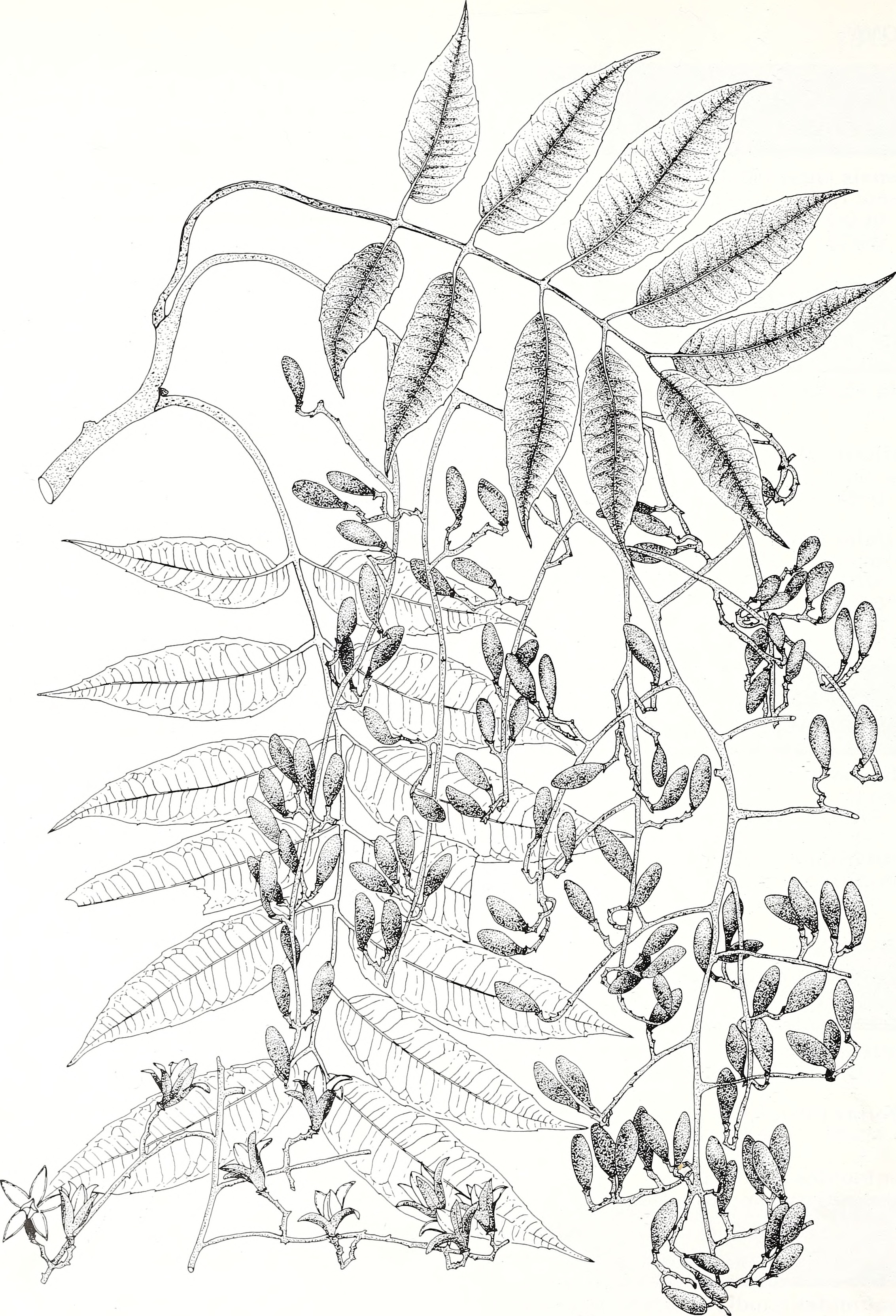 Title: A catalog of cultivated woody plants of the southeastern United States Year: 1994 (1990s) Authors: Meyer, Frederick G. (Frederick Gustav), 1917-2006; Mazzeo, Peter M; Voss, Donald H; National Arboretum (U. S. ) Subjects: Plants, Cultivated Southern States; Woody plants Southern States; Trees Southern States; Shrubs Southern States; Ornamental woody plants Southern States; Plants, Cultivated Catalogs and collections Southern States; Woody plants Catalogs and collections Southern States; Trees Catalogs and collections Southern States; Shrubs Catalogs and collections Southern States; Ornamental woody plants Catalogs and collections Southern States Publisher: (Washington, D. C. ) : U. S. Dept. of Agriculture, Agricultural Research Service Text Appearing Before Image: ' Text Appearing After Image: TOONA sinensis (Juss.) M.J. Roem. (illustrator Lillian Nicholson Meyer) 206